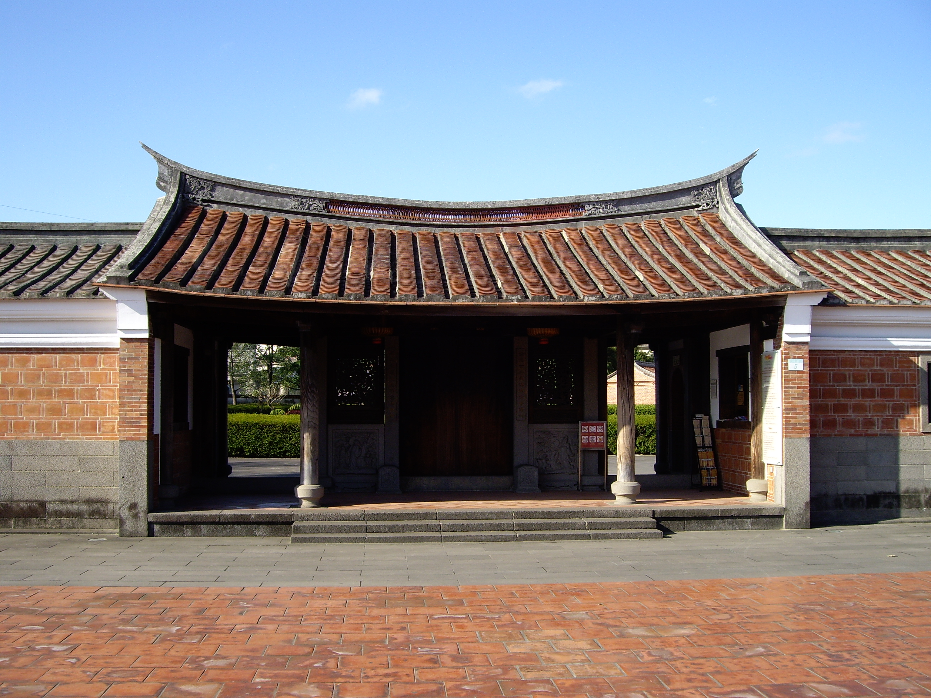 The entrance of Lin An-Tai Historical Home.